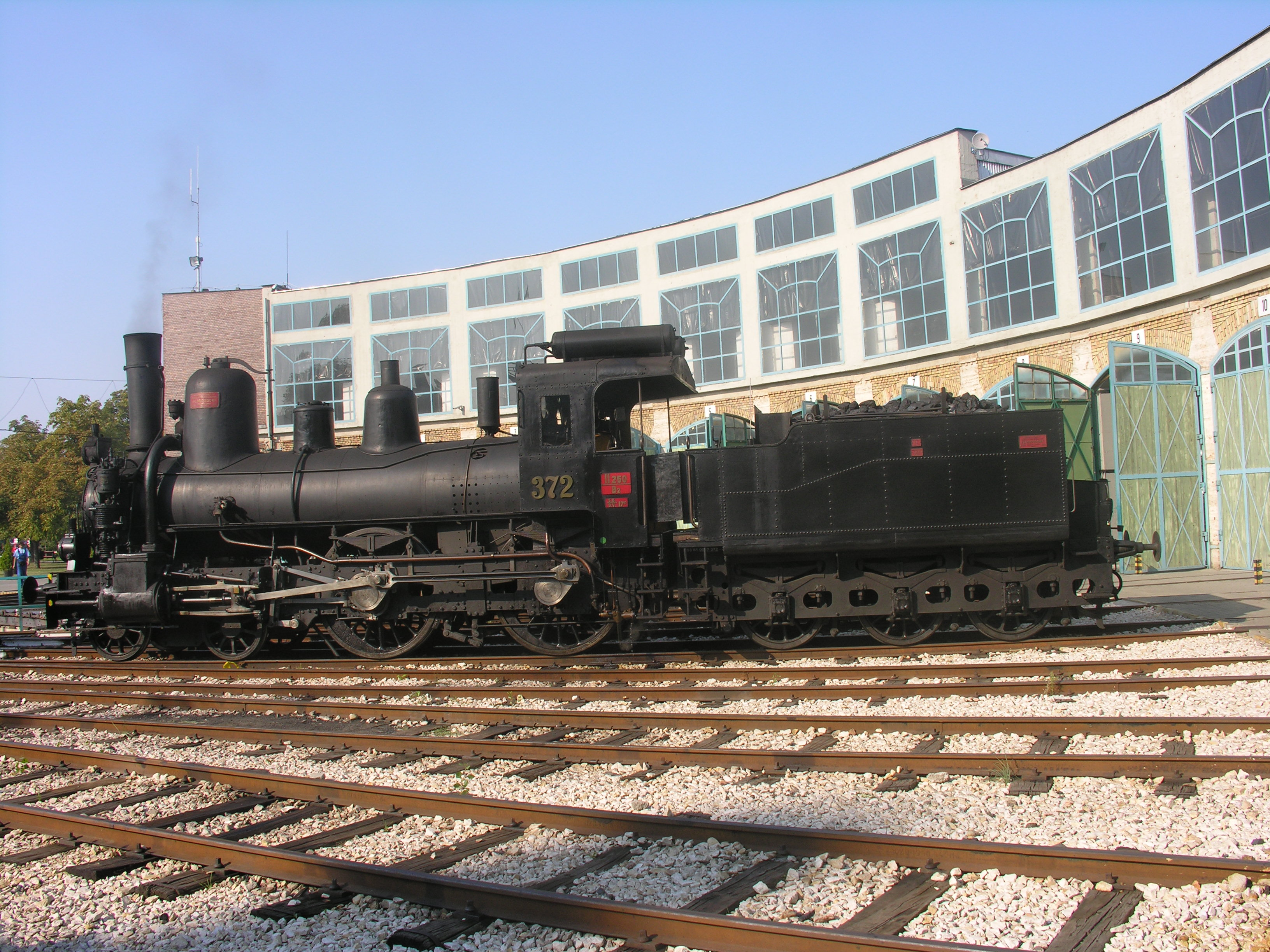 The Southern Railway type 17c No. 372 steam locomotive at the Budapest Railway Museum